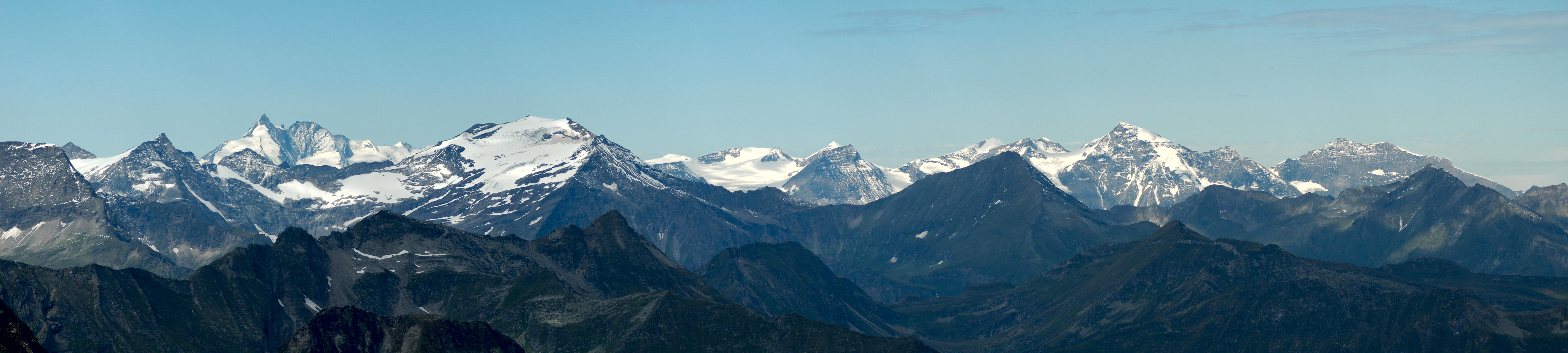 Panorama from Hannoverhaus, Ankogel Group. View to west to Glockner and Goldberg Group, Hohe Tauern, Austria. f.l.t.r.: Sonnblick (with Zittelhaus), Goldzechkopf (3042m), behind Großglockner und Glocknerwand, Hocharn (broad, snowy flake left of the middle of the image), Johannisberg, Bärenköpfe and, in front, Hohe Dock, Klockerin, Vorderer and Hinterer Bratschenkopf (in the foreground the Ritterkopf (3006m)), Großes Wiesbachhorn, Kleines Wiesbachhorn, Hoher Tenn.